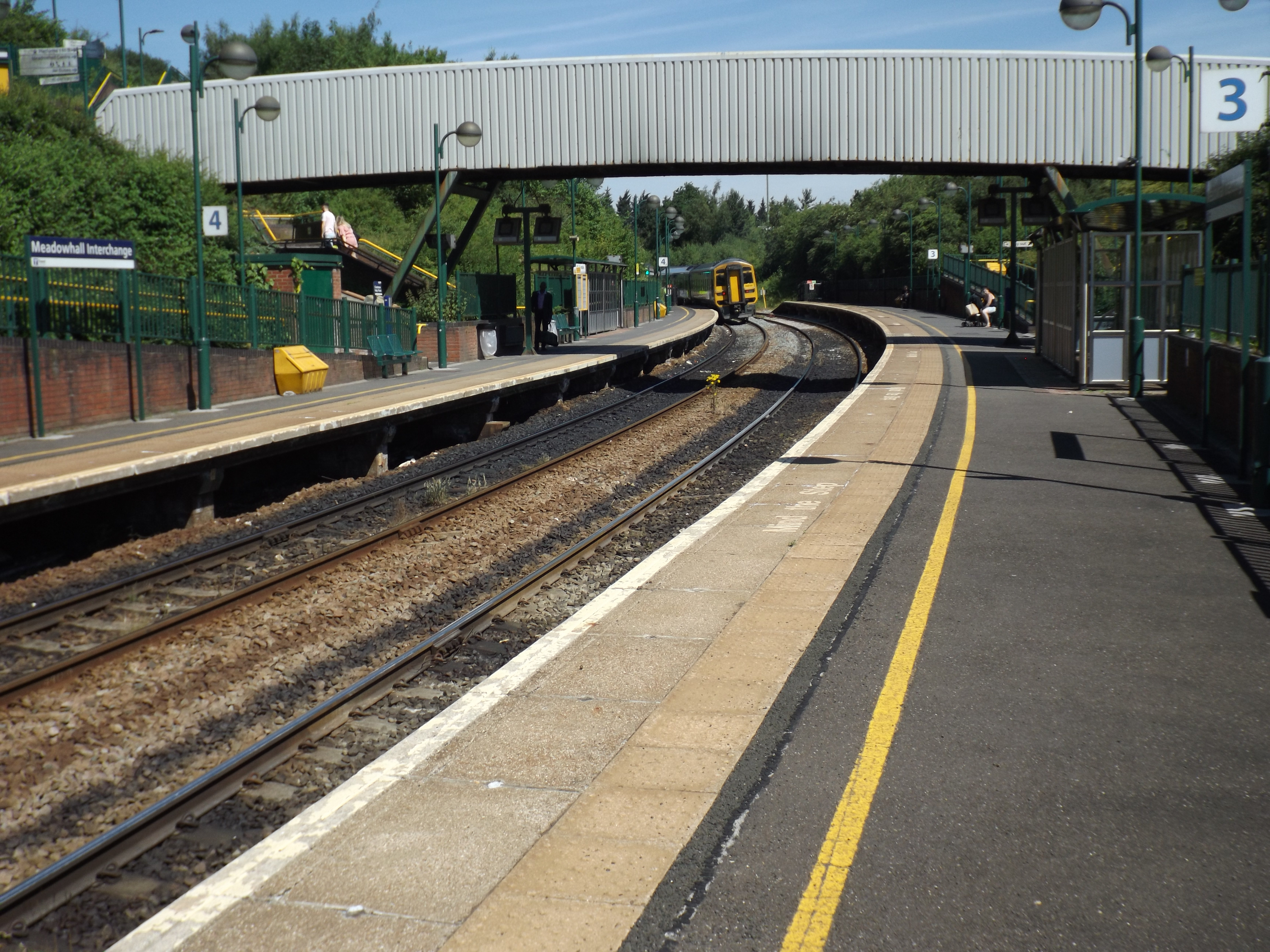 Meadowhall Interchange railway station viewed from platform 3.